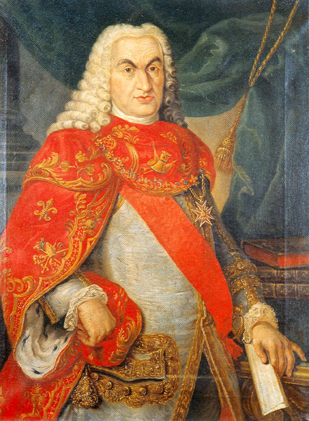 Portrait of Bernardo Tanucci (1698-1783)